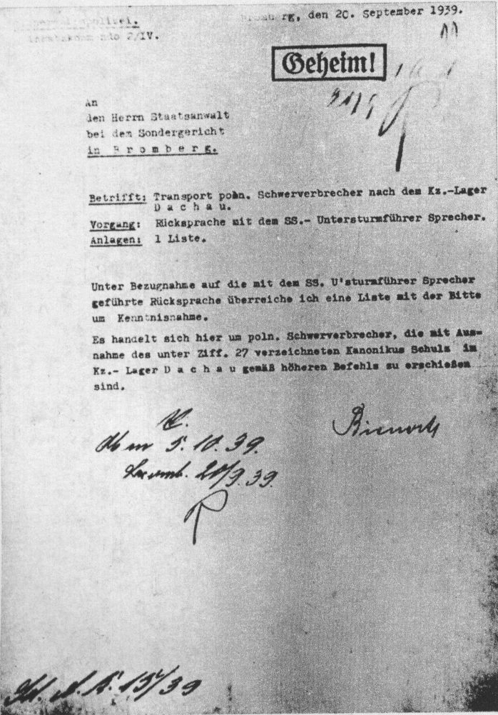 Formal letter sent by Nazi-German police authorities in occupied Polish city Bydgoszcz to the local prosecutor on 20 September 1939, regarding the first transport of Polish political prisoners which was sent to this camp two days earlier. The document contains an information about an order sent to Dachau commandant to immediately execute all prisoners – totally 61 people ¬– with the except of prisoner no. 27 (father Józef Schulz – catholic parson from Bydgoszcz).